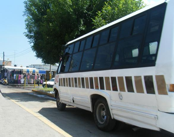 Bus in Mexico.